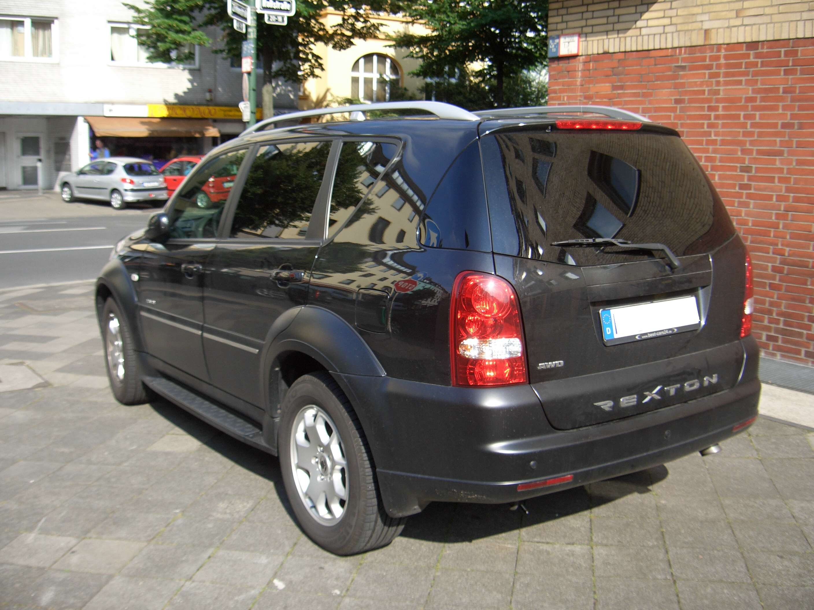 Ssang Yong Rexton RX 270 XDI, Facelift 2006